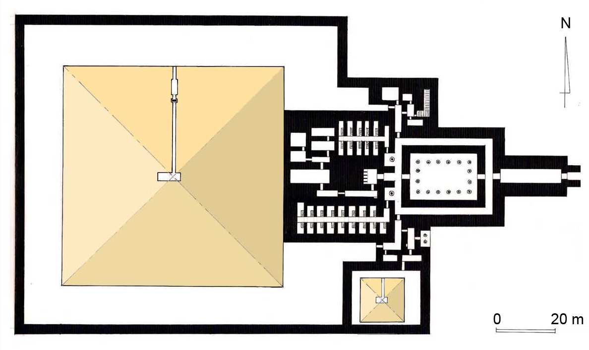 Pyramid Complex of Sahure at Abusir